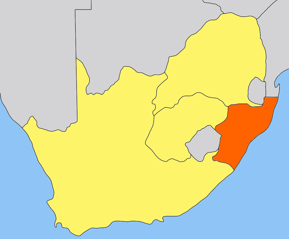 Map of the Natal Colony/Natal Province in South Africa. Traced by hand in Inkscape from older version of this image, recoloured in the GIMP.